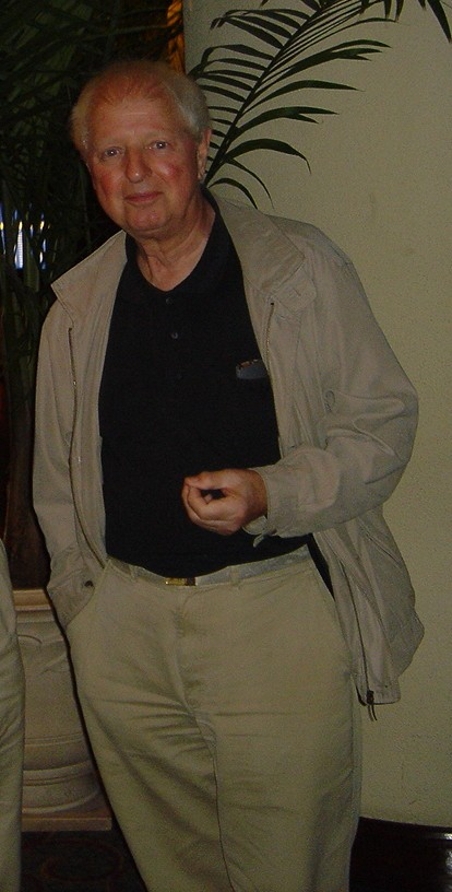 Professor Michael Hanack at the 3rd. International Conference of Phthalocyanines and Porphyrins in 2004 in New Orleans